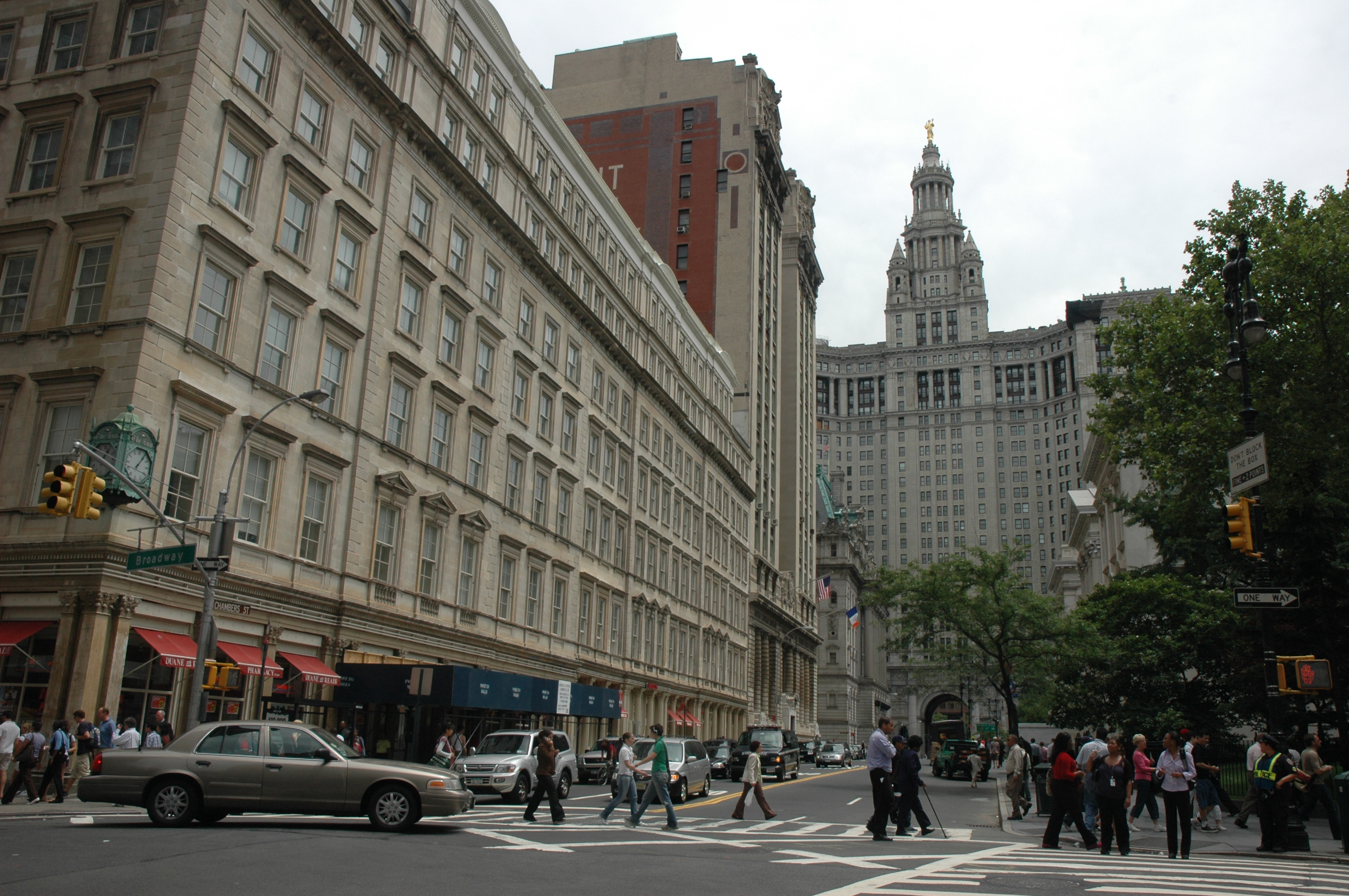 中文（台灣）: 美國紐約121 New York, USA